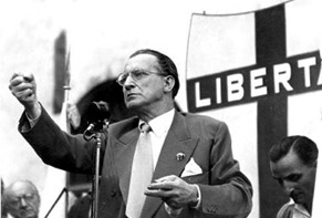 Alcide De Gasperi